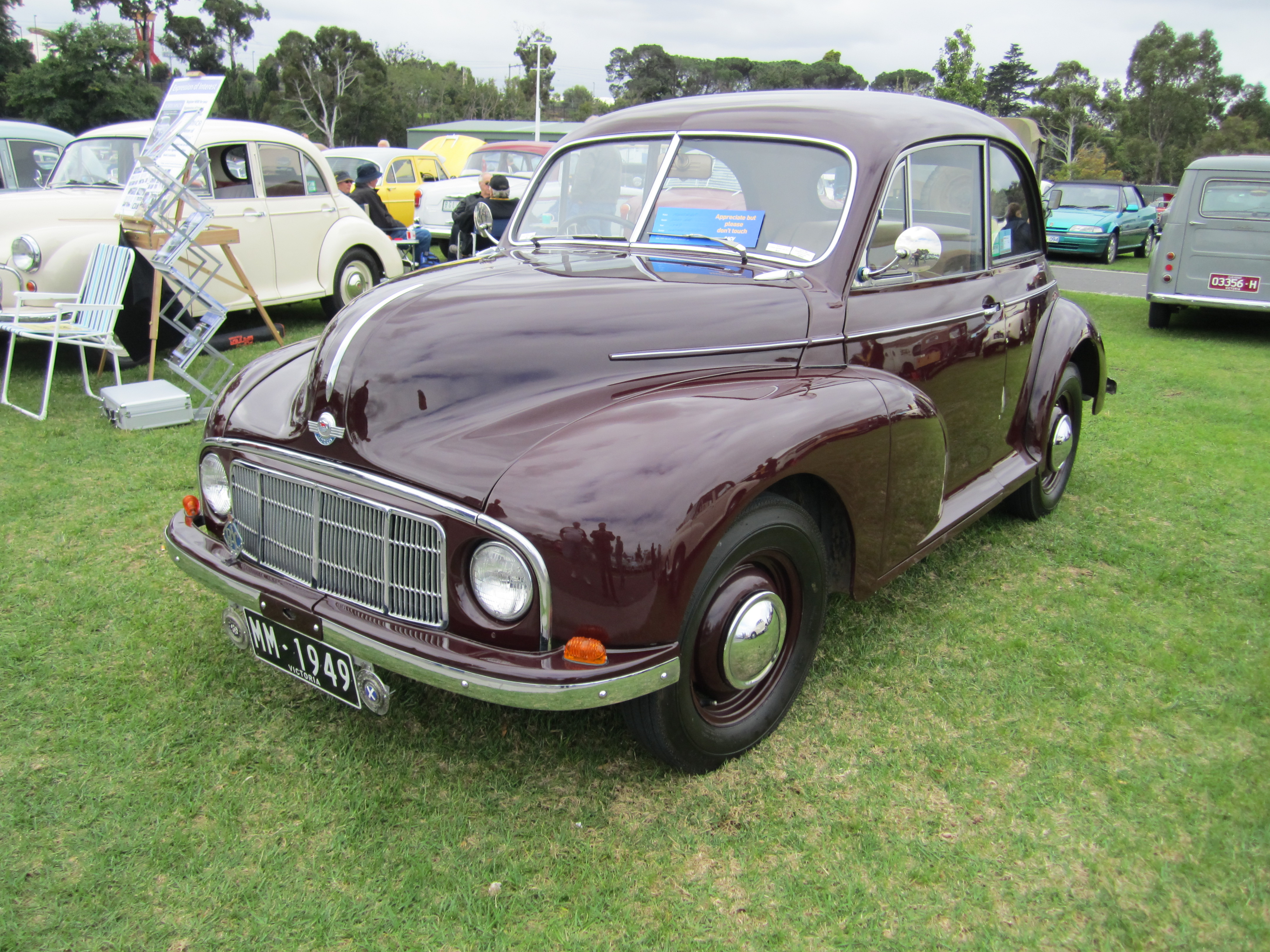 The 1st Morris Minor, built from 1948-53. Available in 2 or 4 door. Engine; 918cc 4 cyl.